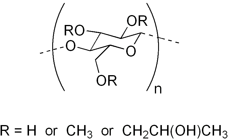 chemical structure of hypromellose (hydroxypropyl methyl cellulose, hydroxypropylmethyl cellulose, HPMC)